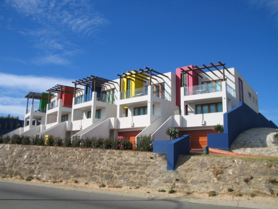 The colourful Stylist Houses located in Scarborough near the beach.